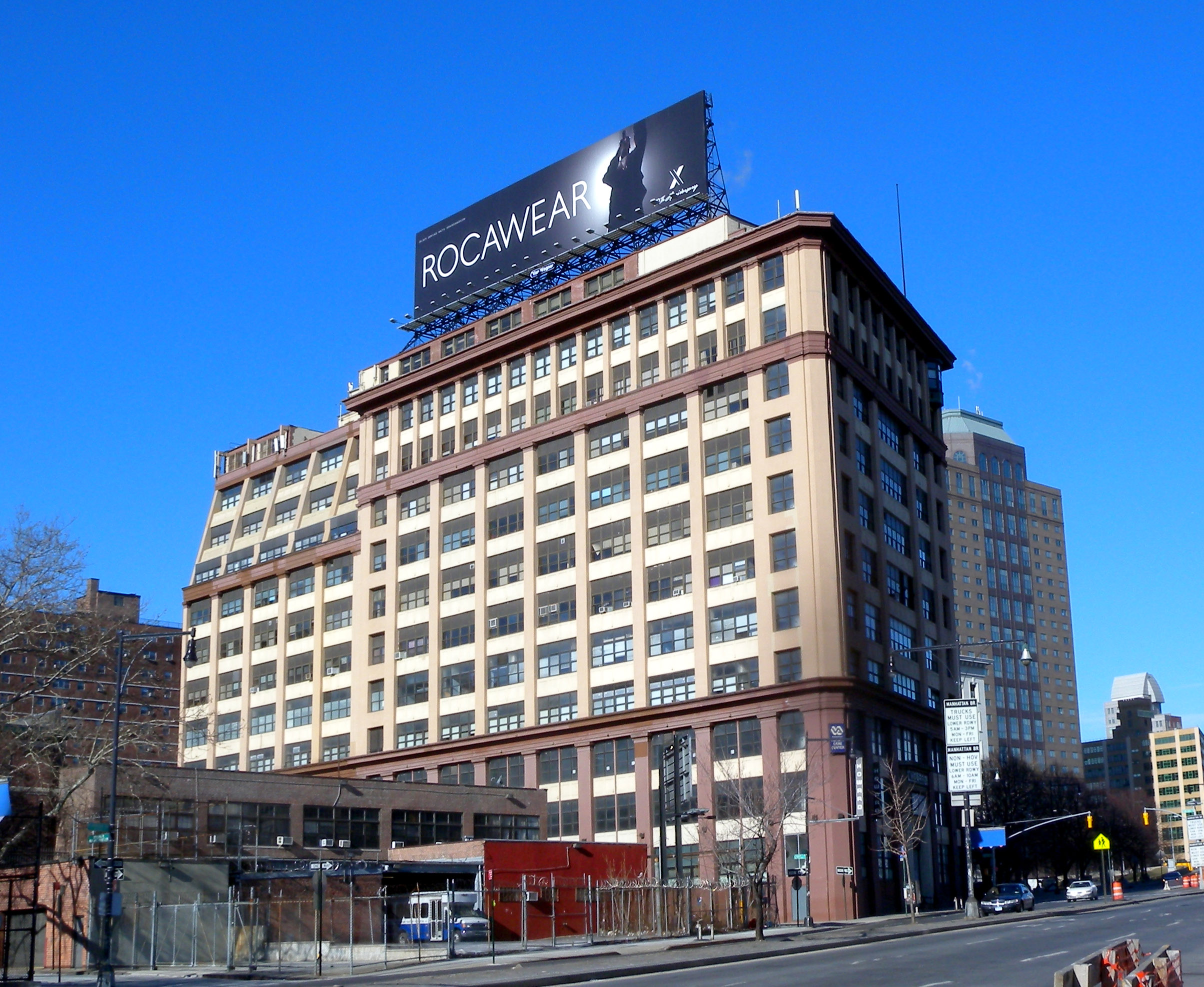 Looking northwest at former Sperry Gyroscope factory, 40 Flatbush Avenue Extension. See also File:Sperry Gyro 40 FBE nite jeh.jpg